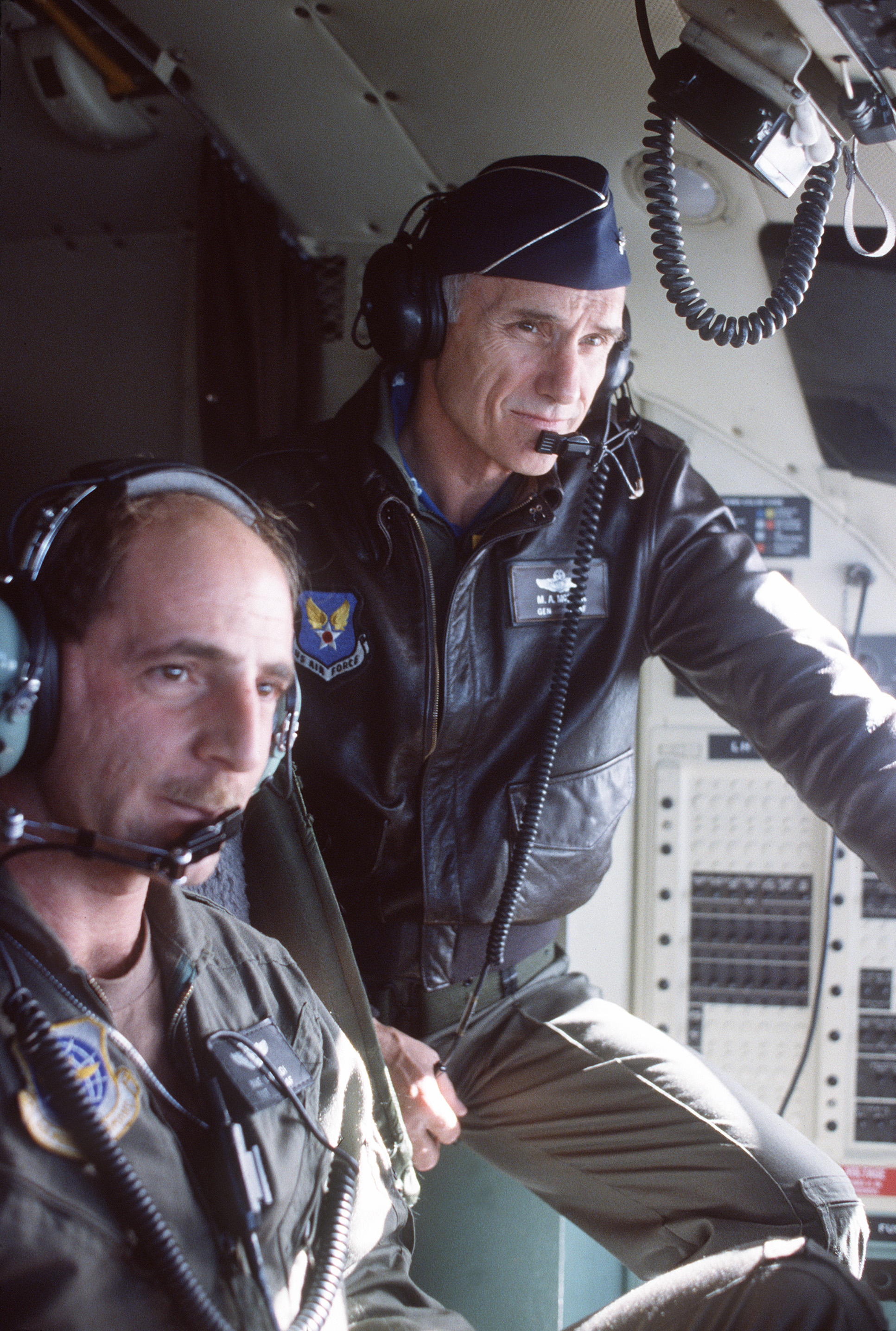 Air Force Chief of Staff General Merrill McPeak observes operations in the cockpit of C-130 Hercules, en route to Sarajevo, Bosnia for an airdrop mission.